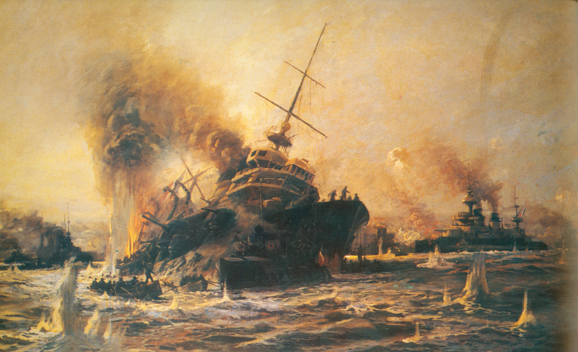 Sinking of Battleship Bouvet at the Dardanelles